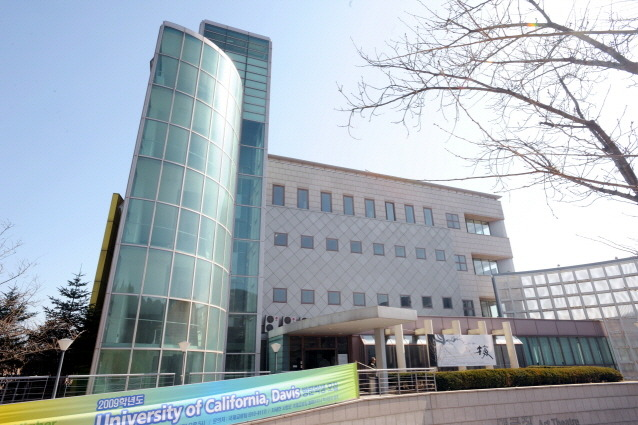 college of art kmu